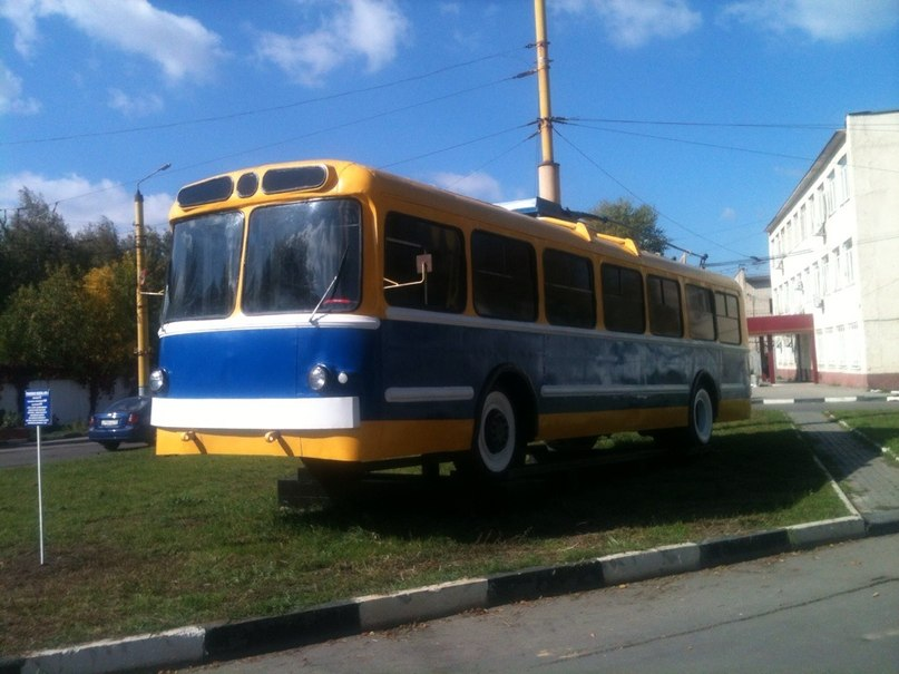 ЗиУ-5